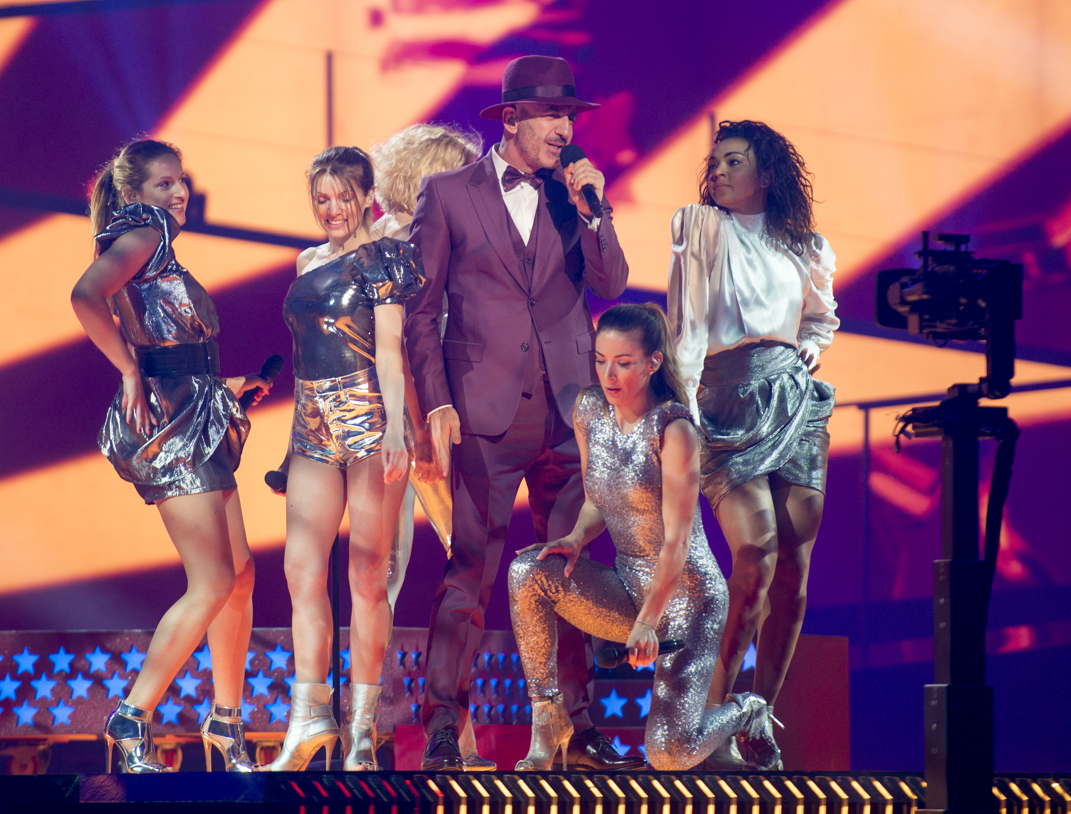 Serhat representing San Marino with the song "I Didn't Know" during a rehearsal before the first semi final of the Eurovision Song Contest 2016 in Stockholm. (Help translate this text)